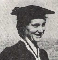 Florence Houteff circa approx. 1940's